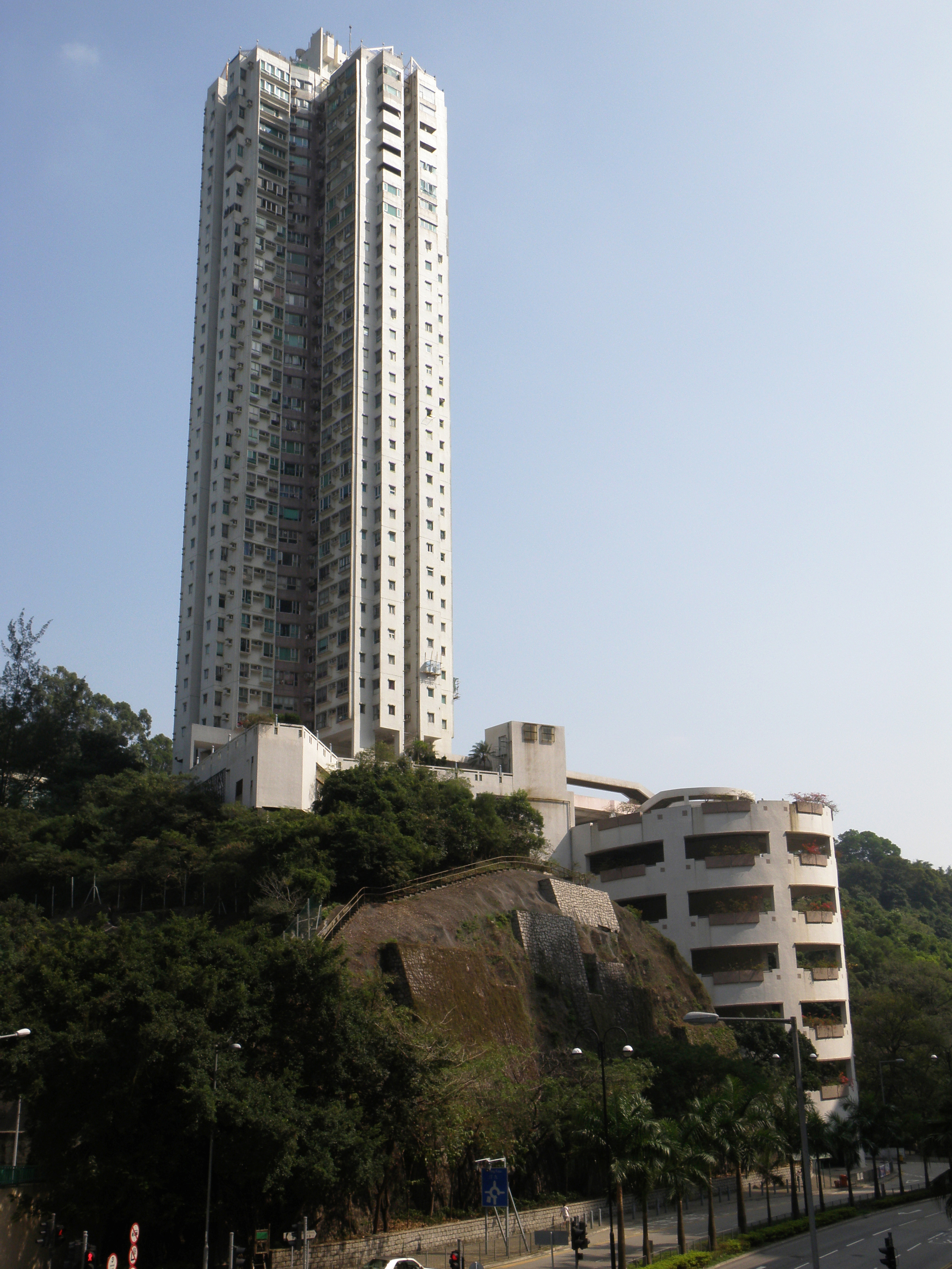 Rhine Terrace in Sham Tseng, Hong Kong.